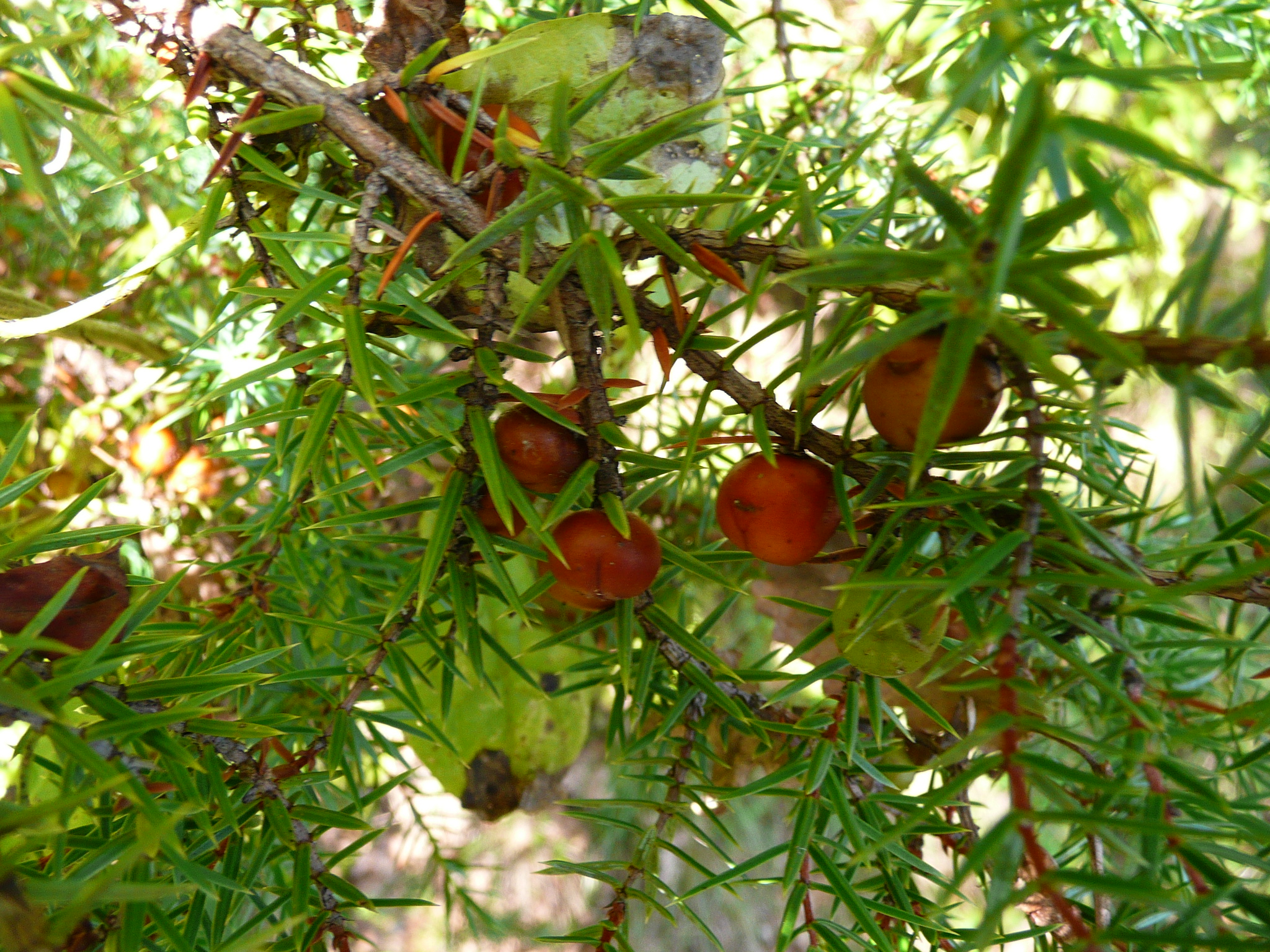 Juniperus deltoides foliage and cones. Piantabete, Marche, eastern Italy.